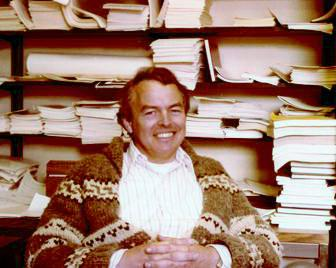 University of Washington Mathematics Professor R. Tyrrell ("Terry") Rockafellar in 1977. From the collection of Professor Konrad Jacobs at MFO (Oberwolfach).